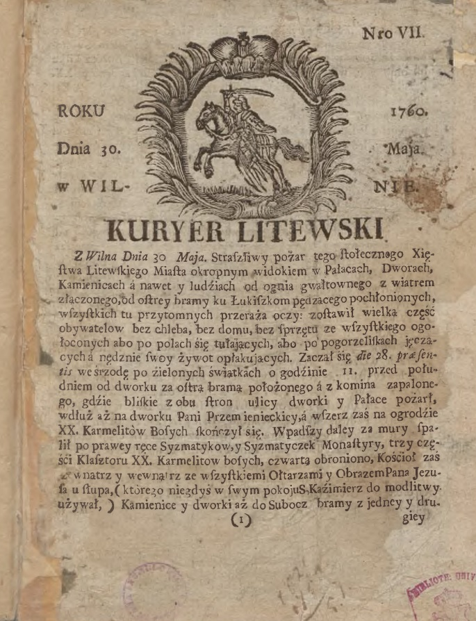 Title page of Kuryer Litewski (1760) which was the first Lithuanian newspaper. It was being published weekly in Vilnius, Grand Duchy of Lithuania from 19 April 1760 to 19 August 1763.